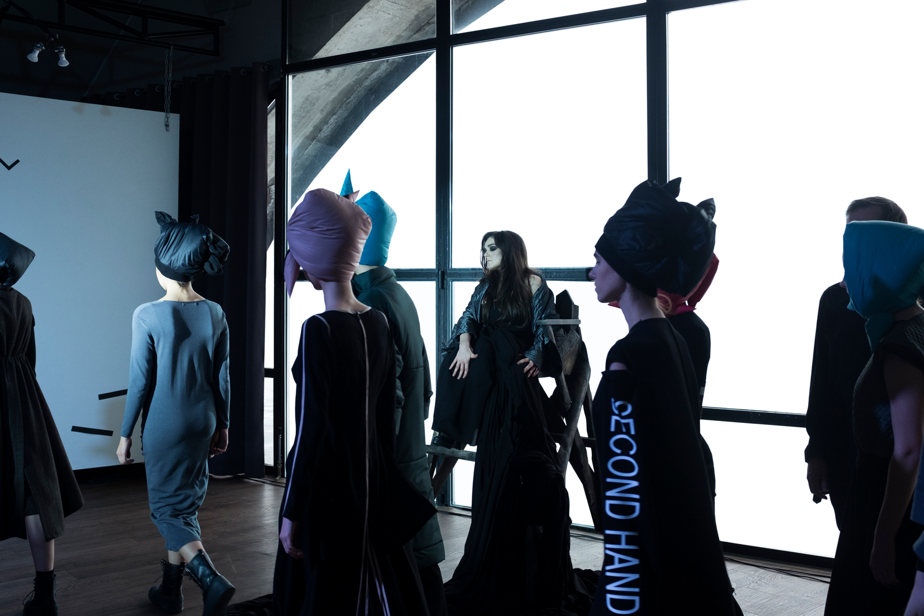 Alexandra Kutas on Fedor Vozianov runway show VIY 2017 by Uly Pashkova